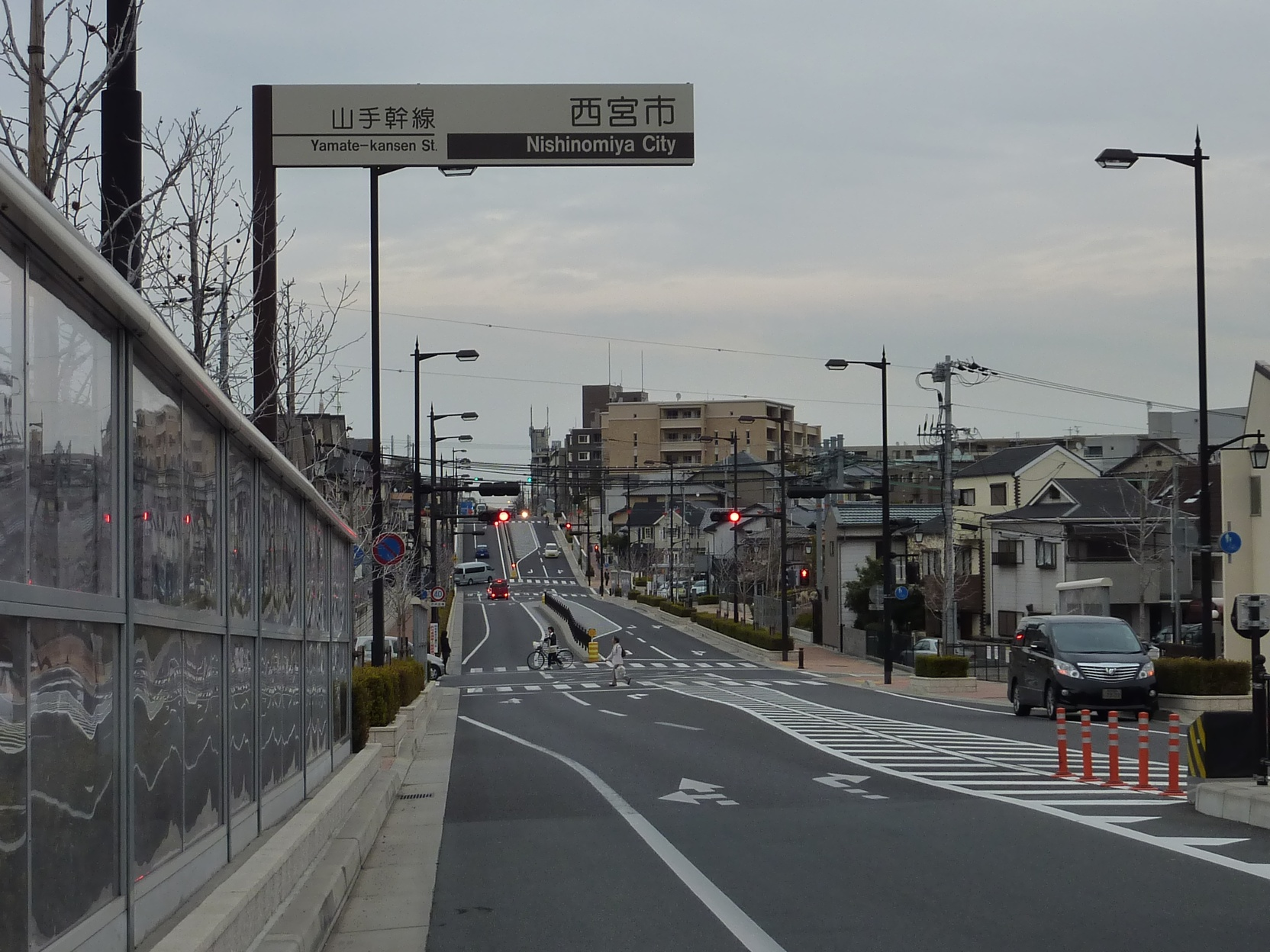 Yamate Kansen Street - Nishinomiya City, Hyogo, Japan